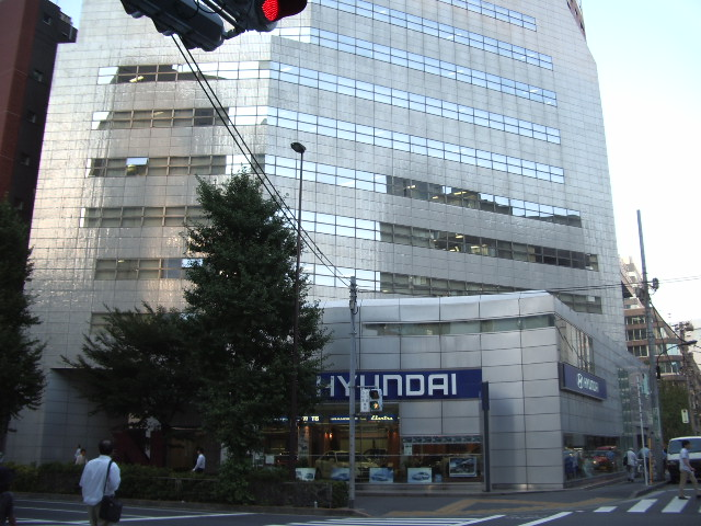 Hyundai Motor Japan Toranomon showroom, NN Bldg, Toranomon, Tokyo